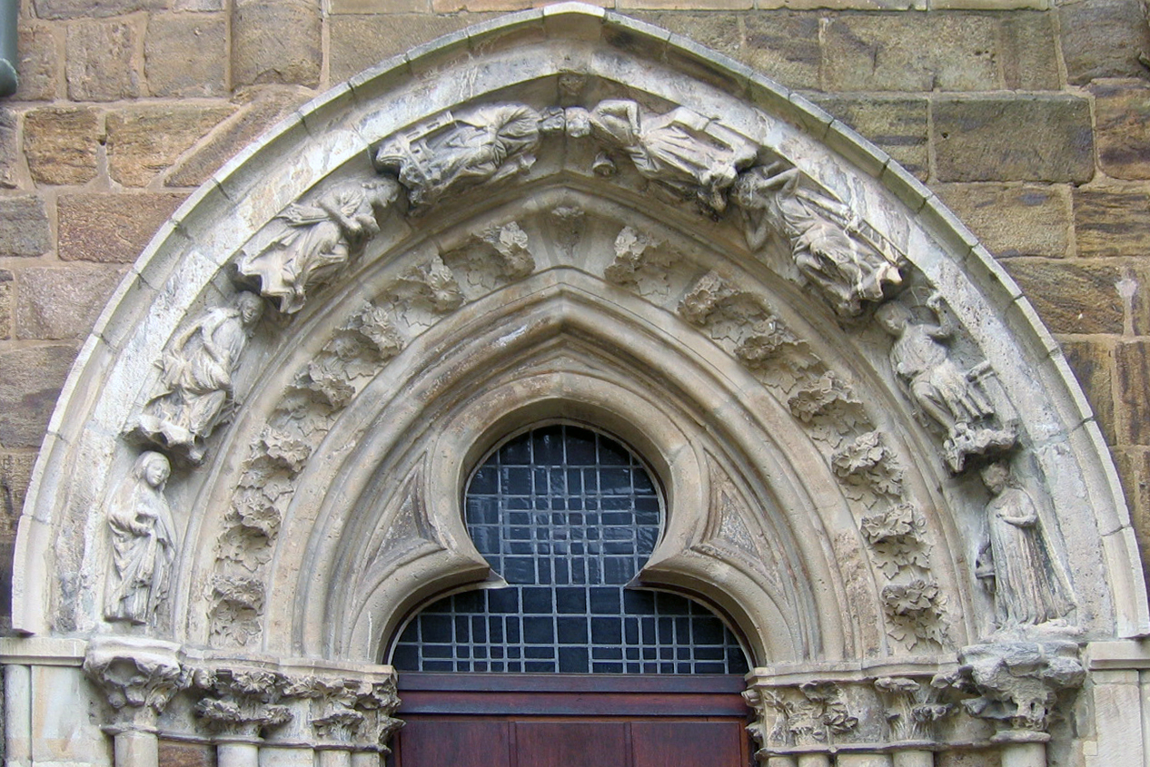 Cathedral in Minden, District of Minden-Lübbecke, North Rhine-Westphalia, Germany.